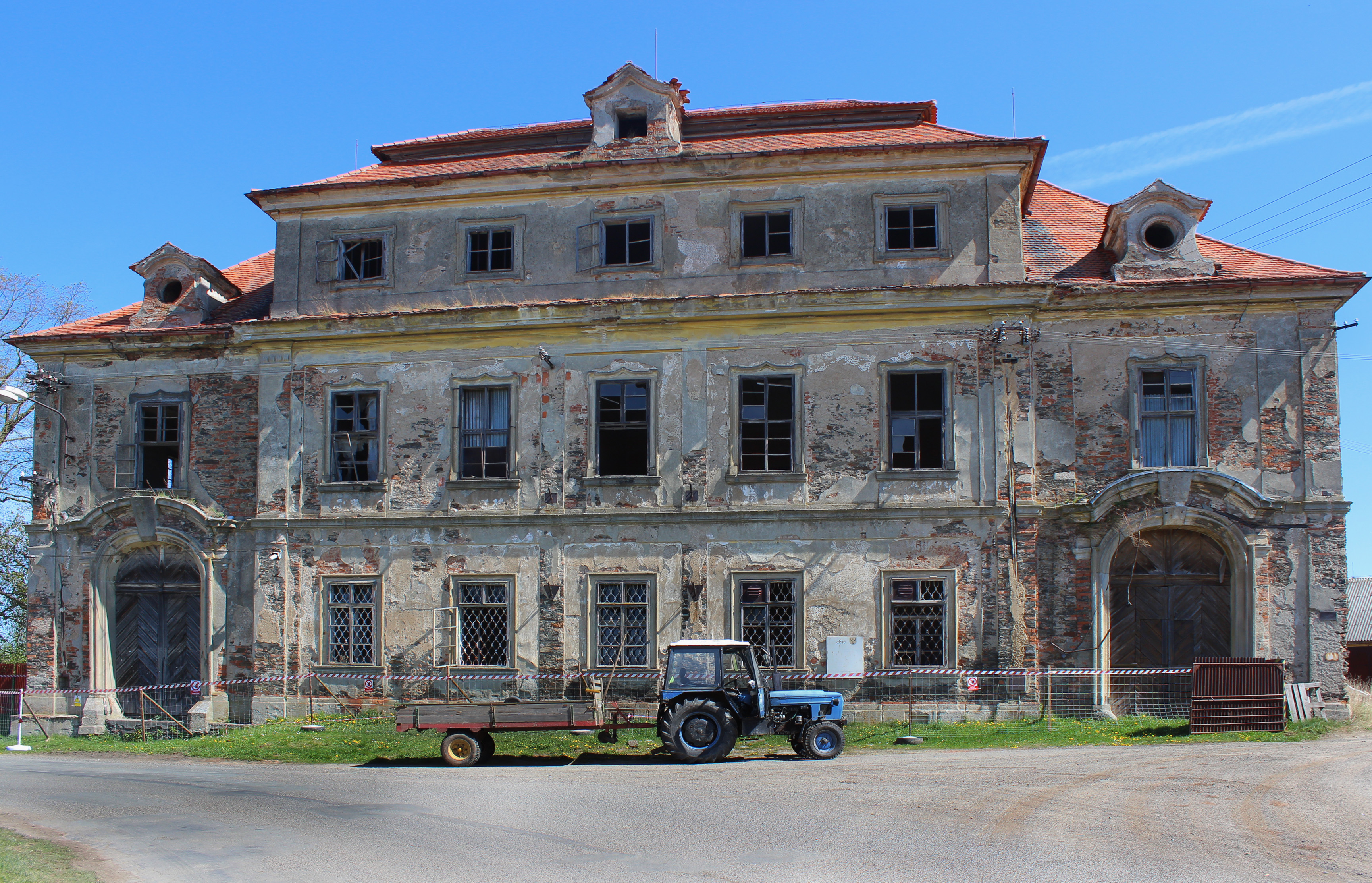 Cebiv castle in Cebiv village, Czech Republic